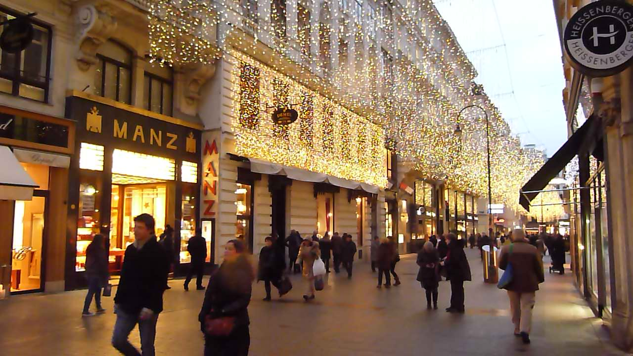 Live on the 3rd of December, 2014. Advent in Wien. ©© Derzsi Elekes Andor, Budapest, 2014, Published in the Metapolisz DVD line. You are authorised to use this photo under Creative Commons – even for commercial, for profit purposes. The photo must be attributed to Derzsi Elekes Andor. All of the photos and vids in the Metapolisz DVD line are under Creative Commons and can be used even for commercial – for profit – purposes. Recommended Citation Derzsi Elekes Andor: Metapolisz DVD line